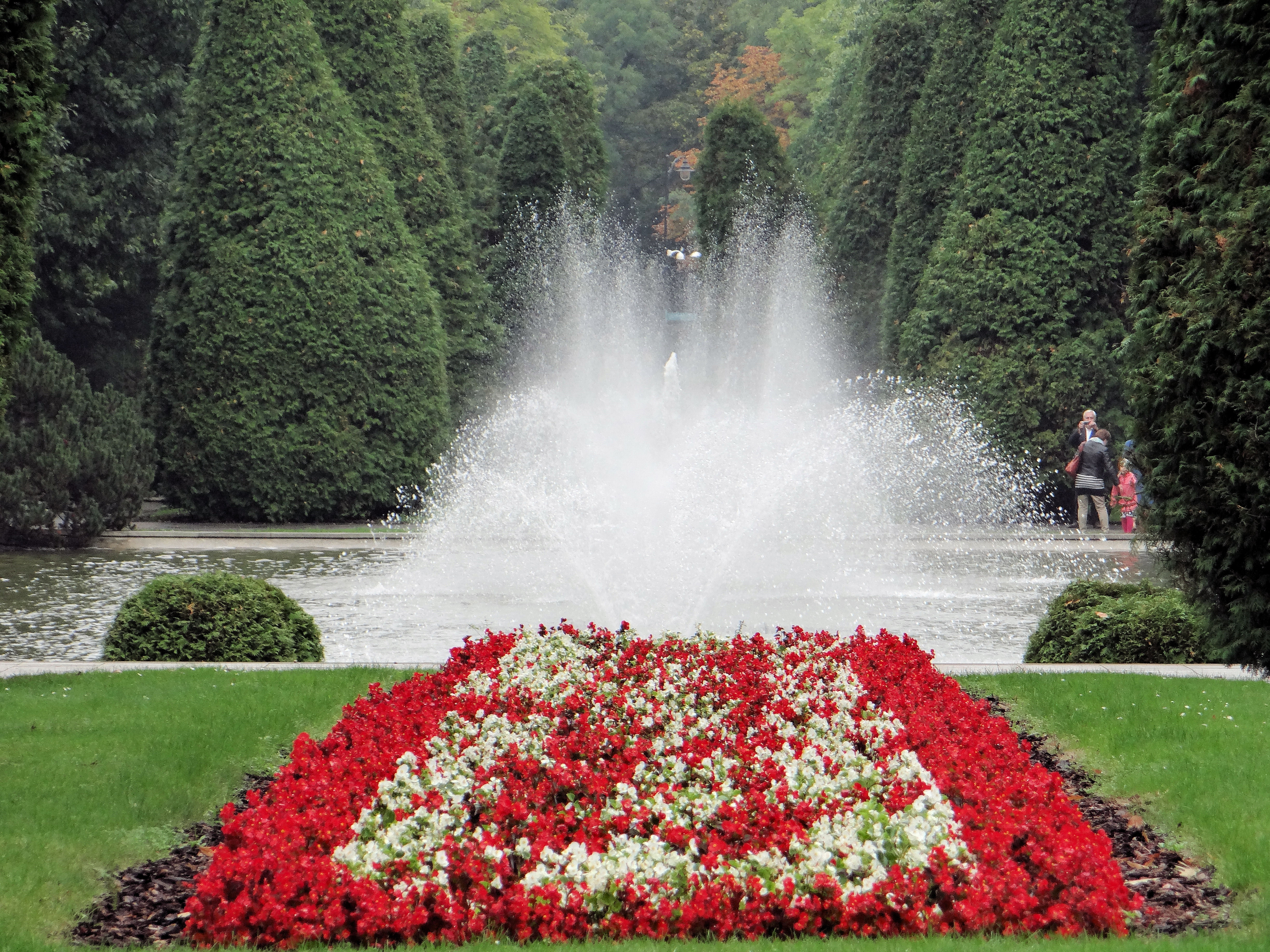 Fountain in Planty Park in Białystok